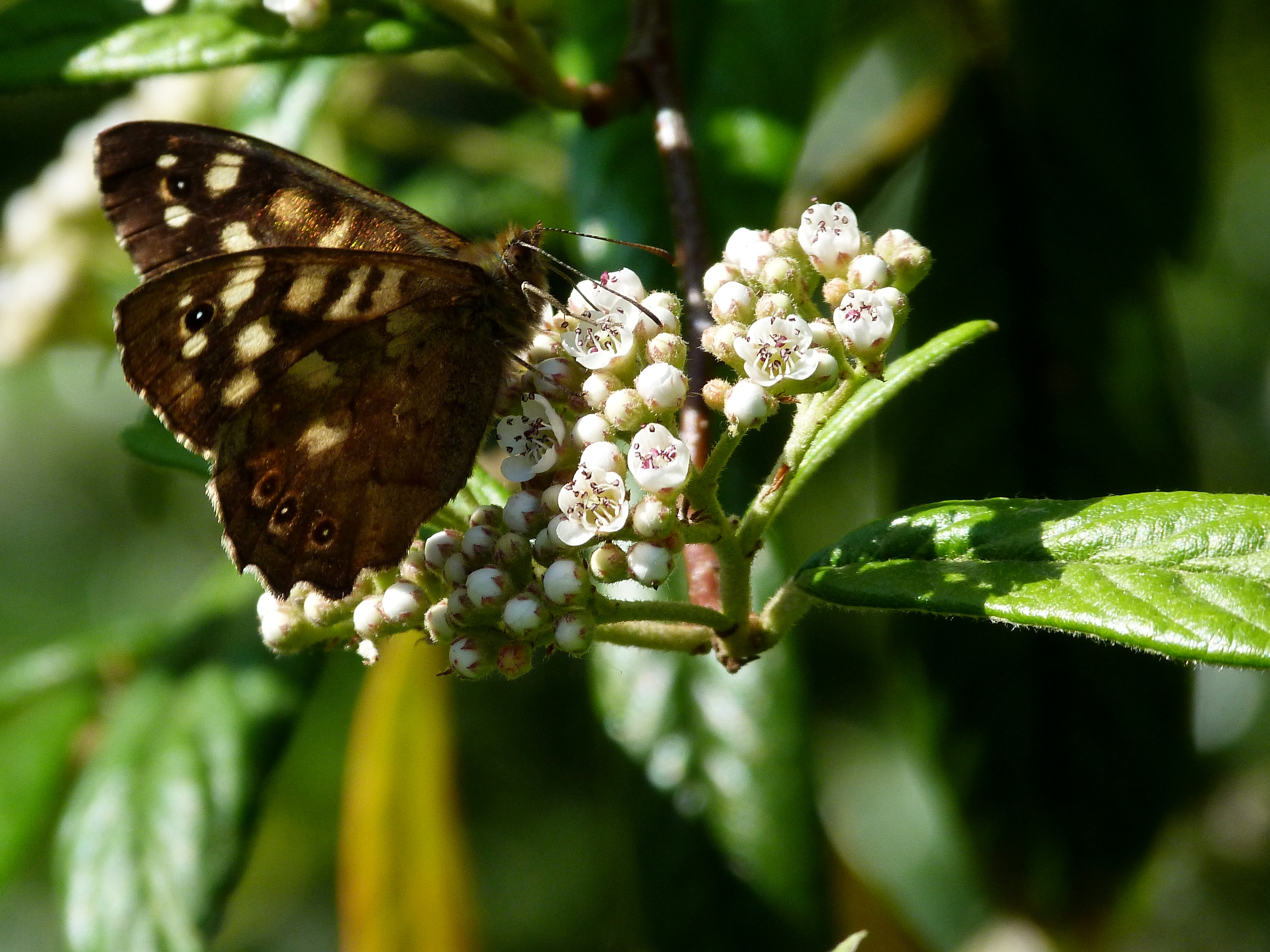 A Speckled Wood Butterfly, Stockport, England, UK